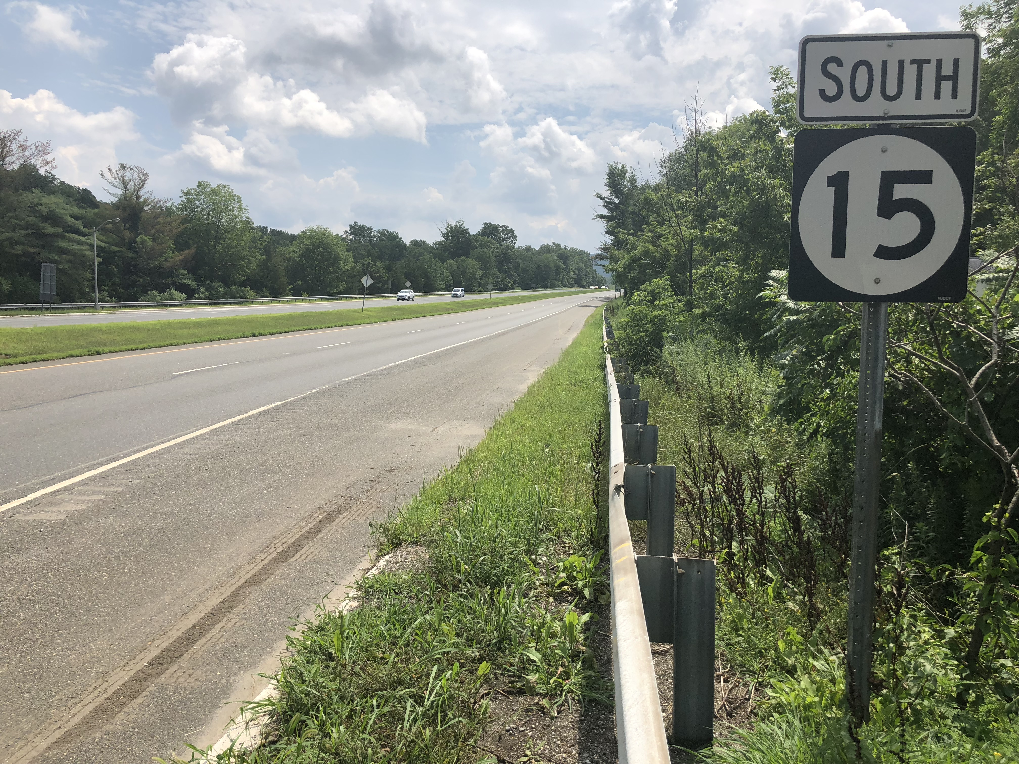 View south along New Jersey State Route 15 (Sparta Bypass) just south of New Jersey State Route 181 (Lafayette Road) in Sparta Township, Sussex County, New Jersey